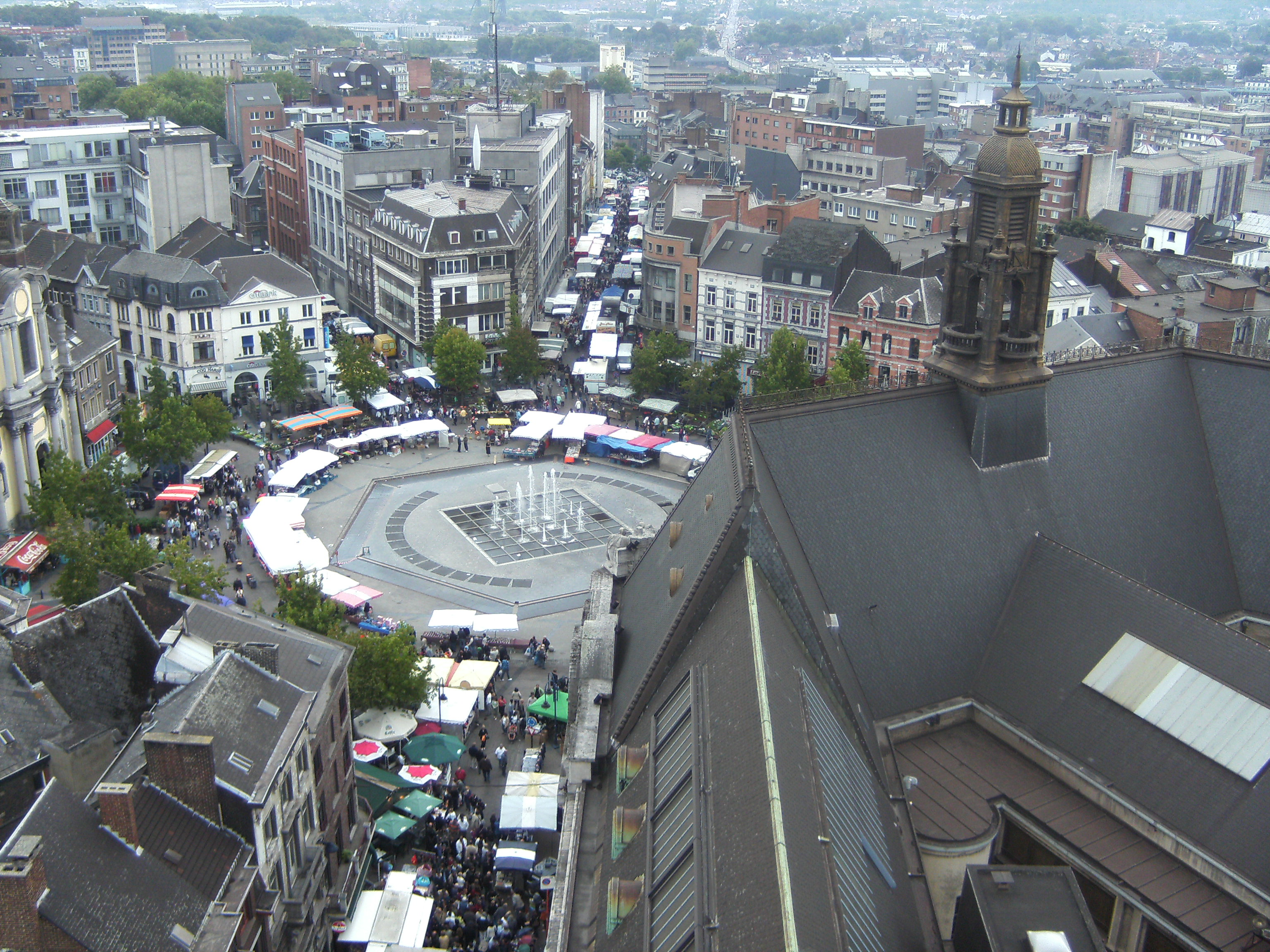 Charles II square aka. Ville-Haute square in Charleroi, Belgium. View from the belfry on market day.